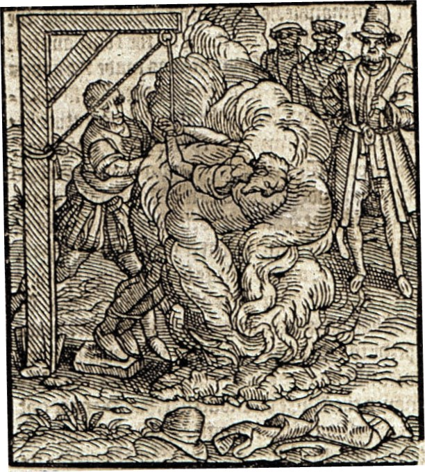 Sir John Oldcastle being burnt for Lollard heresy and insurrection. First published in Holinshed's Chronicles (1577). Image from